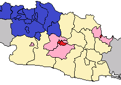 Metropolitan Zones within Western Java